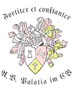 Altes Palaten Wappen3